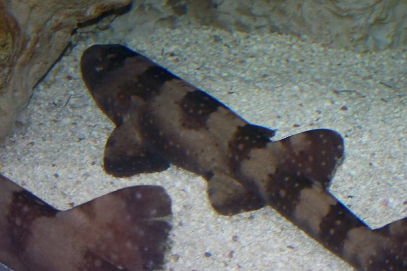 Whitespotted bamboo shark (Chiloscyllium plagiosum) at the Newport Aquarium